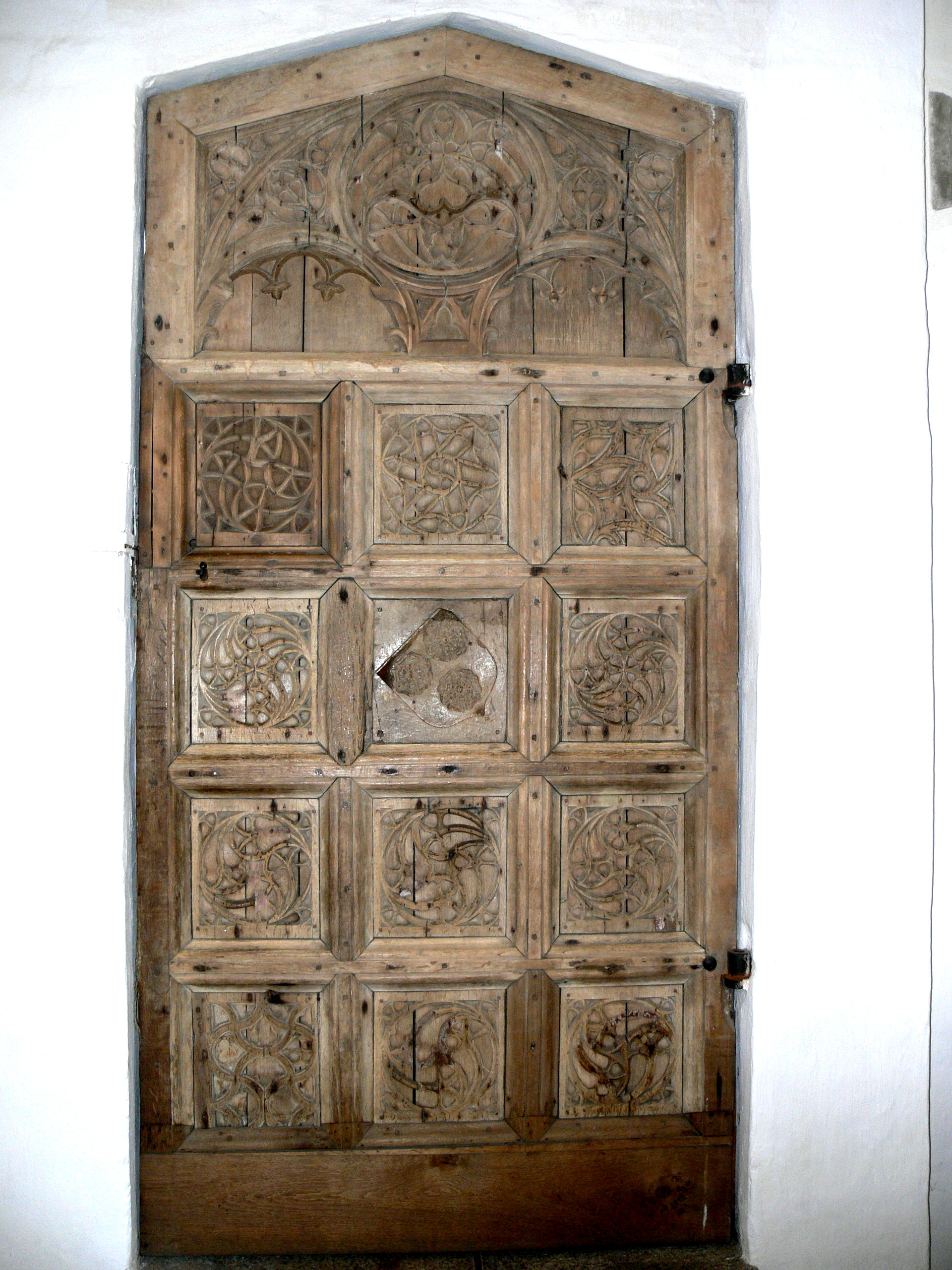 Ribe Cathedral. Gothic door of bishop Ivar Munk ( 16th century )